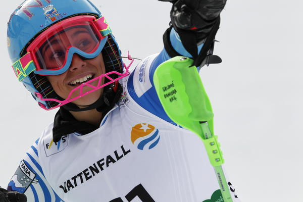 1 puesto Val Thorens-Francia. Mundial Austria